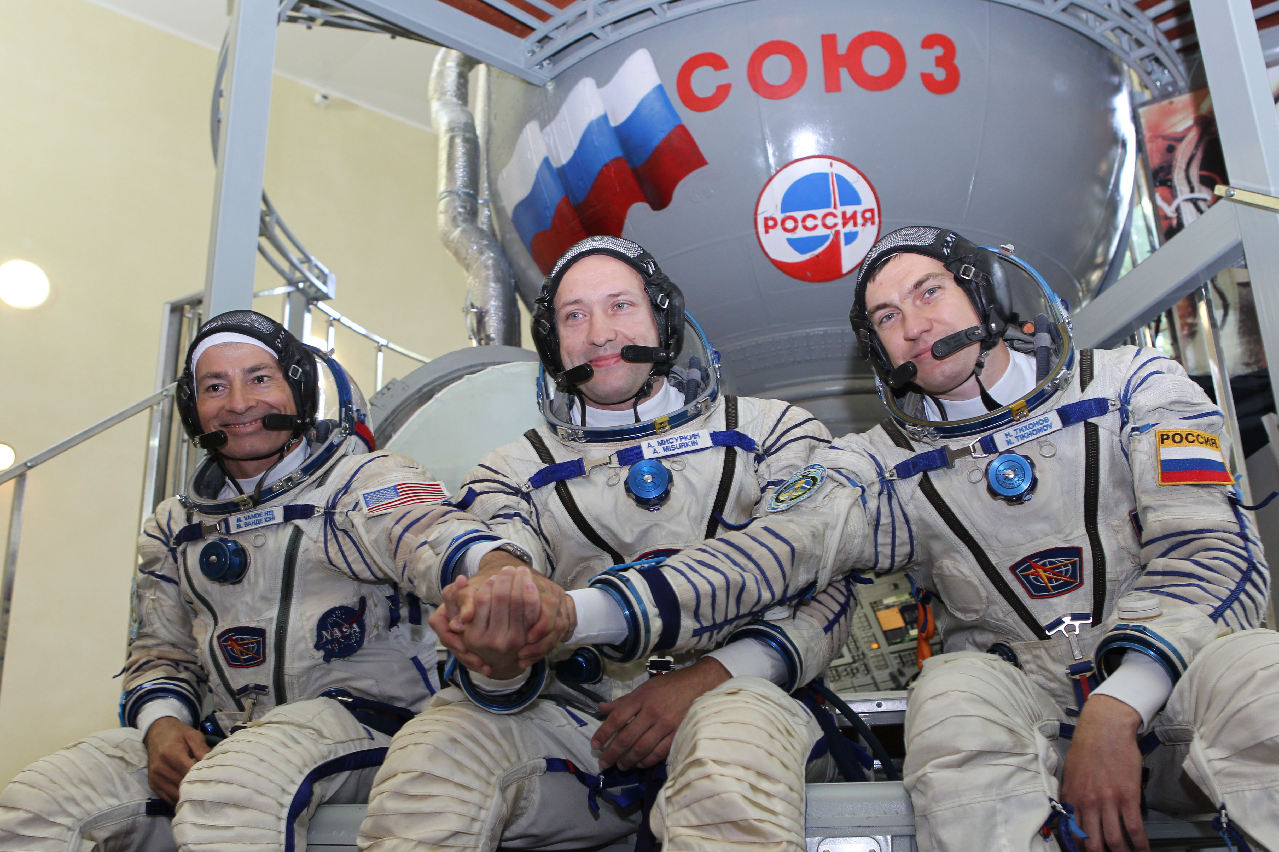 At the Gagarin Cosmonaut Training Center in Star City, Russia, Expedition 49-50 backup crewmembers Mark Vande Hei of NASA (left) and Alexander Misurkin (center) and Nikolai Tikhonov (right) of Roscosmos pose for pictures Aug. 30 at the start of final qualification exams. They are serving as backups to prime crewmembers Shane Kimbrough of NASA and Andrey Borisenko and Sergey Ryzhikov of Roscosmos who will launch on Sept. 24 (Kazakh time) on their Soyuz MS-02 vehicle from the Baikonur Cosmodrome in Kazakhstan for a five-month mission on the International Space Station.